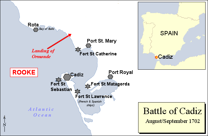 Battle of Cadiz 1702. Adapted from Winston Churchill's Marlborough: His Life and Times volume 2.